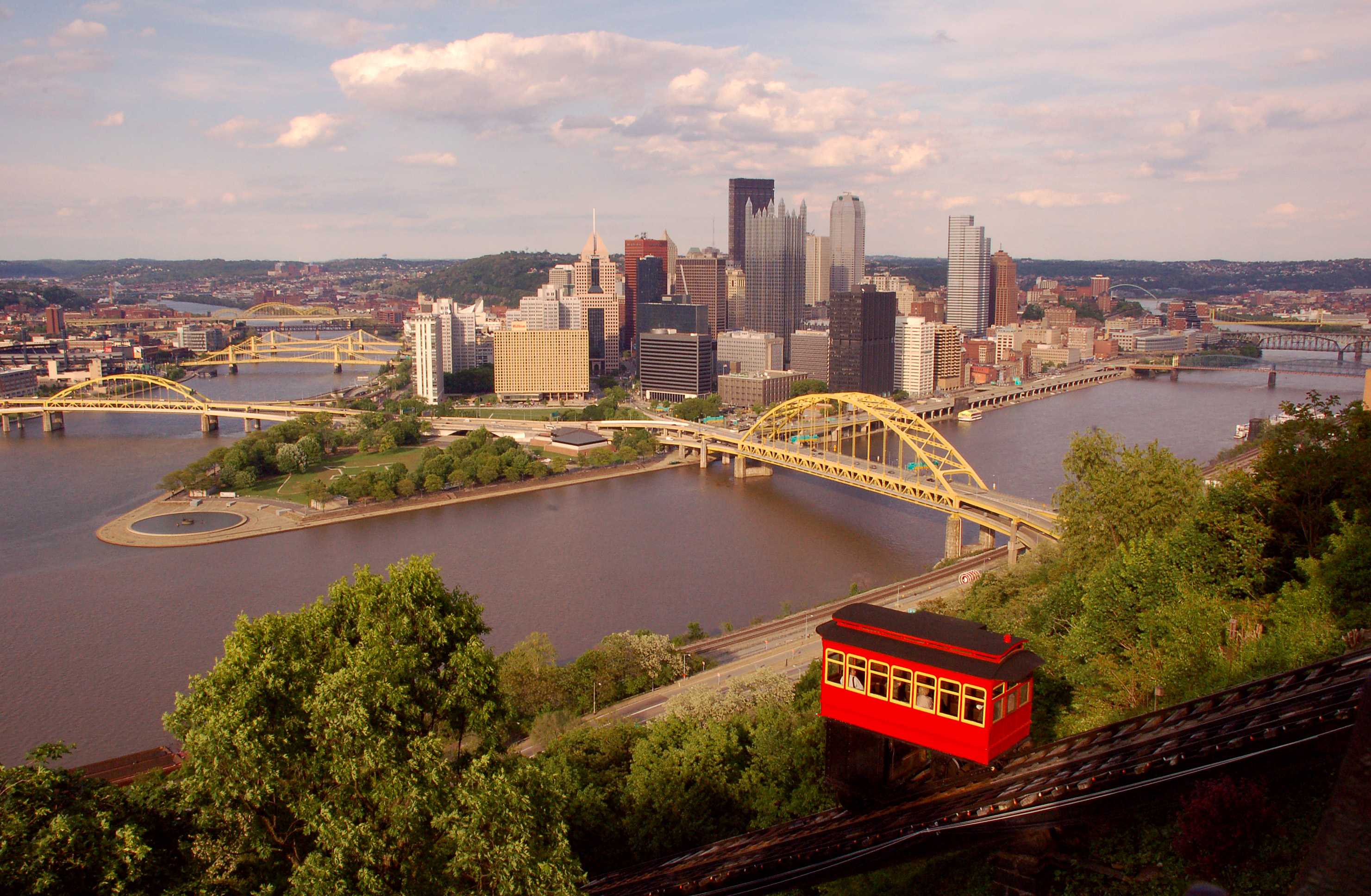 View of downtown Pittsburgh, Pennsylvania from the top of Mount Washington at the Duquesne Incline observation deck. Photo by Dr. Cash; May 19, 2008.